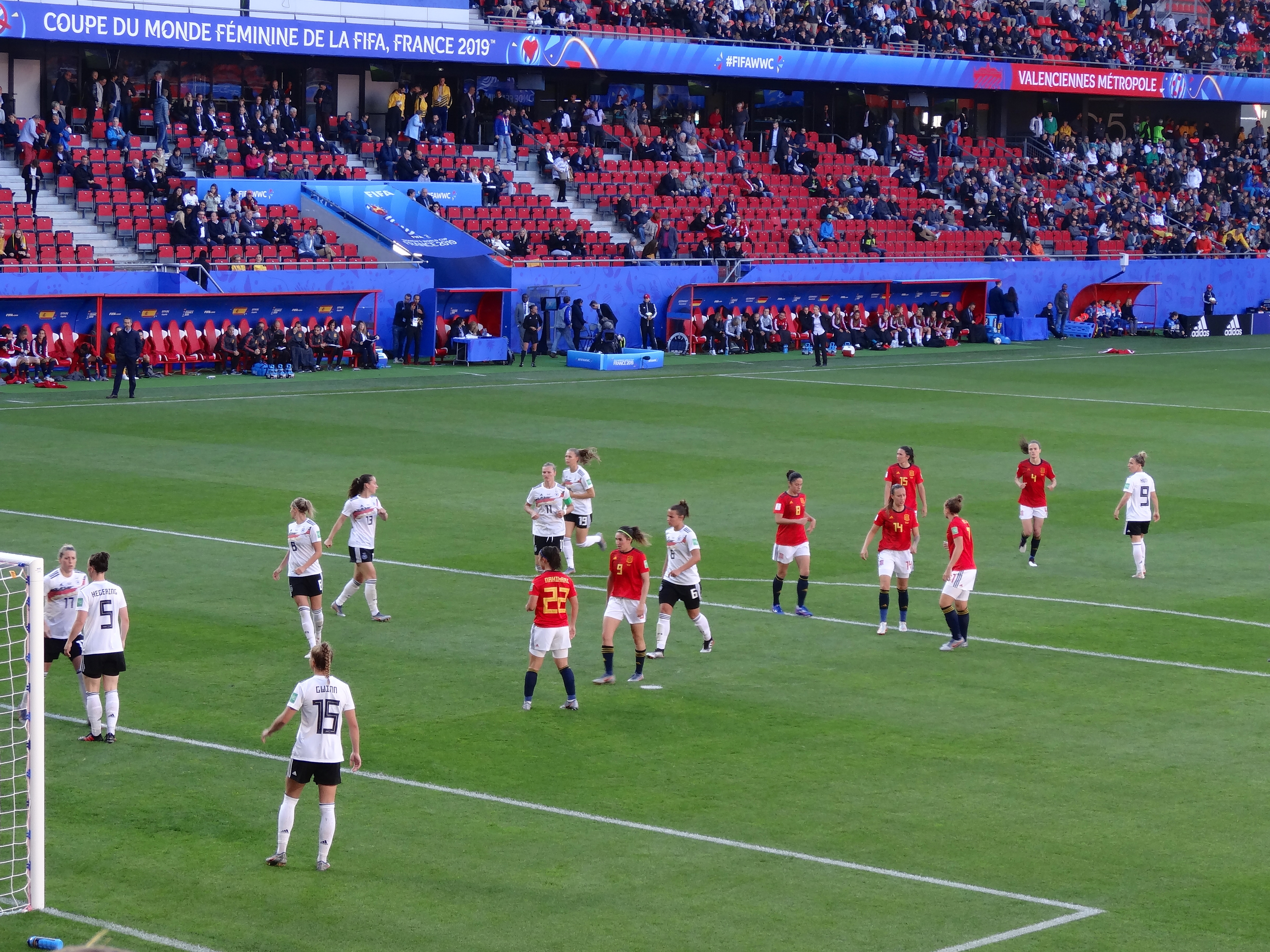 Germany vs Spain women world cup 2019